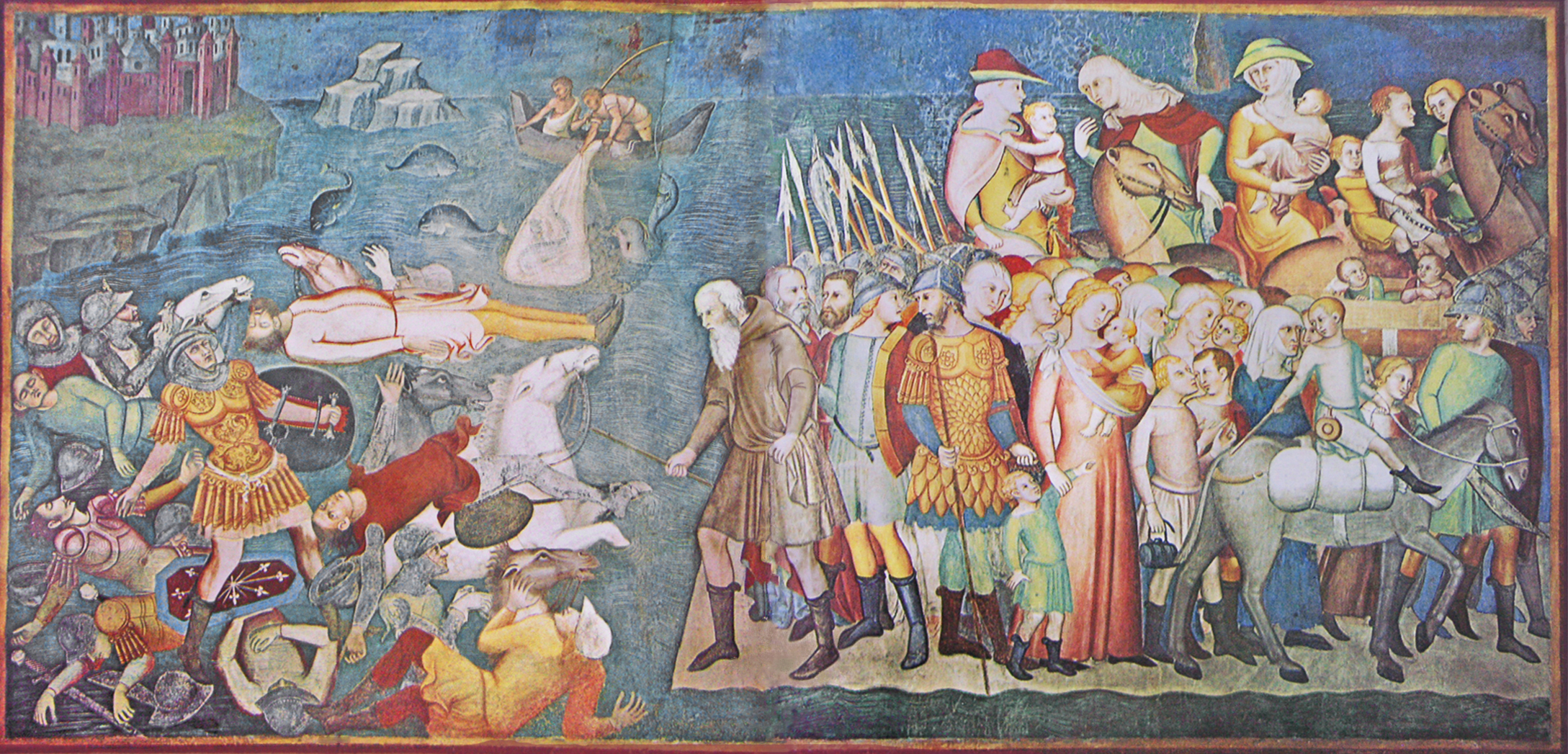 Collegiate Church of San Gimignano, Italy. from the Old Testament cycle: The Israelites safely cross the Red Sea, but Pharaoh and his troops are drowned.